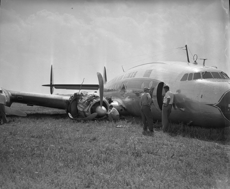 Title: Eastern Air Liner crash landing, Curles Neck Farm Creator: Adolph B. Rice Studio Date: July 21, 1951 Identifier: Rice Collection 53O Format: 1 negative, safety film, 4 x 5 in. Repository: Library of Virginia, Prints and Photographs, 800 E. Broad St., Richmond, VA, 23219, USA, :8881/R